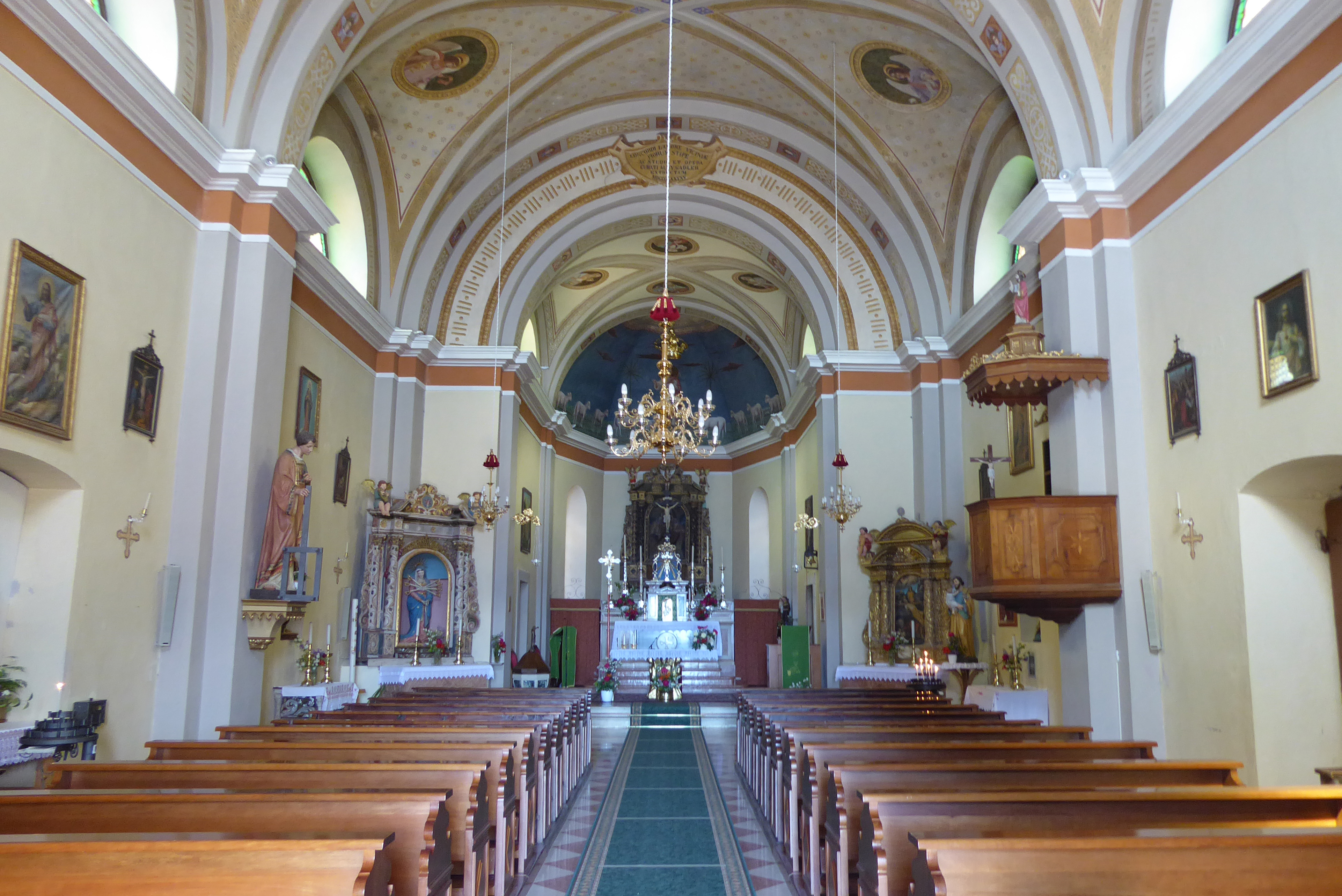 San Felice (Fierozzo, Trentino, Italy), Saint Felix of Nola church - Interior